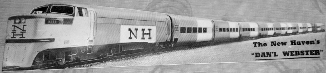 Photo of a grill car brochure and an advertising "standee" from the New Haven Railroad to promote their streamlined train The Daniel Webster. The train was made by Pullman and powered by Baldwin diesels.